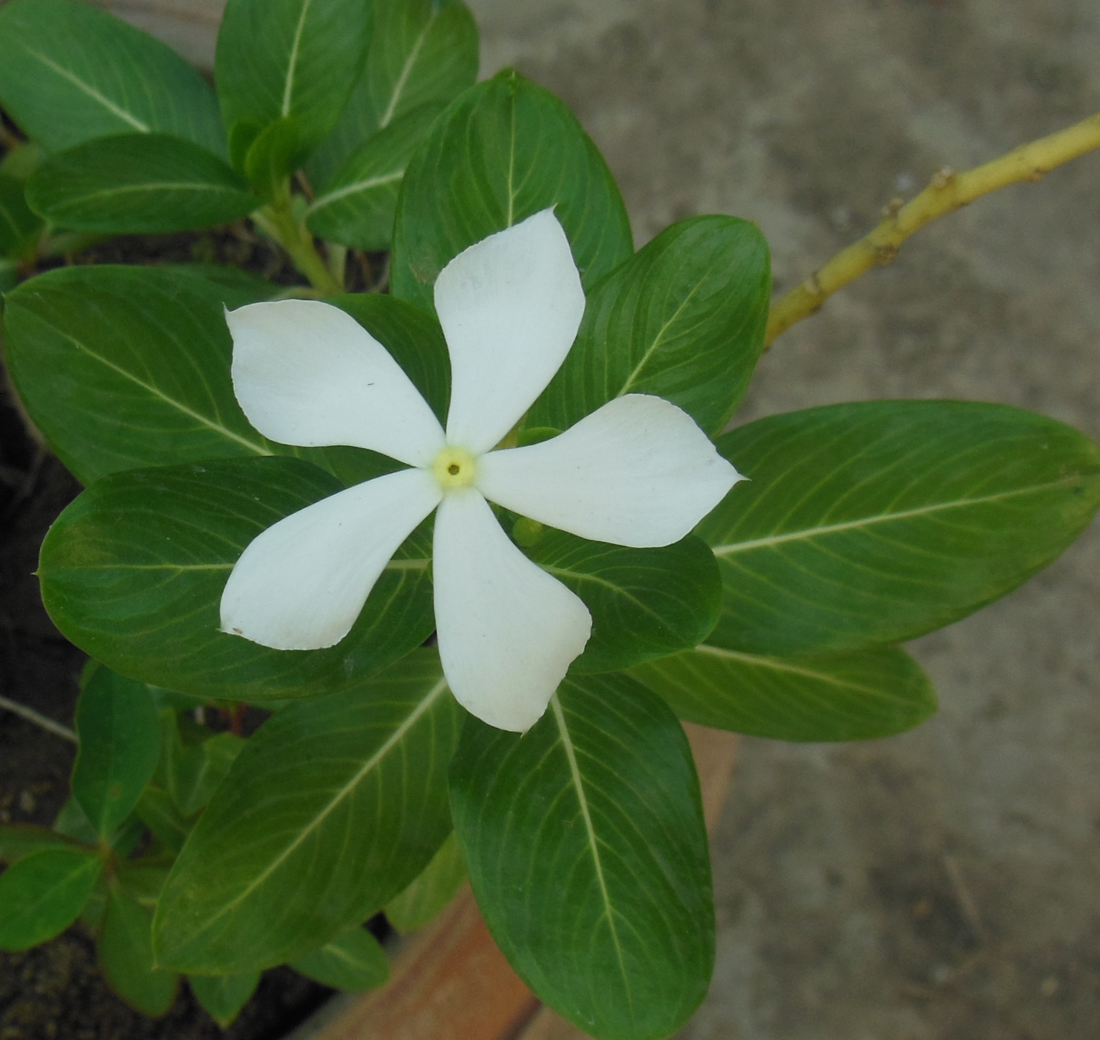 Catharanthus roseus, commonly known as the Madagascar rosy periwinkle, is a species of Catharanthus native and endemic to Madagascar. Other English names occasionally used include Cape periwinkle, rose periwinkle, rosy periwinkle, and "old-maid"